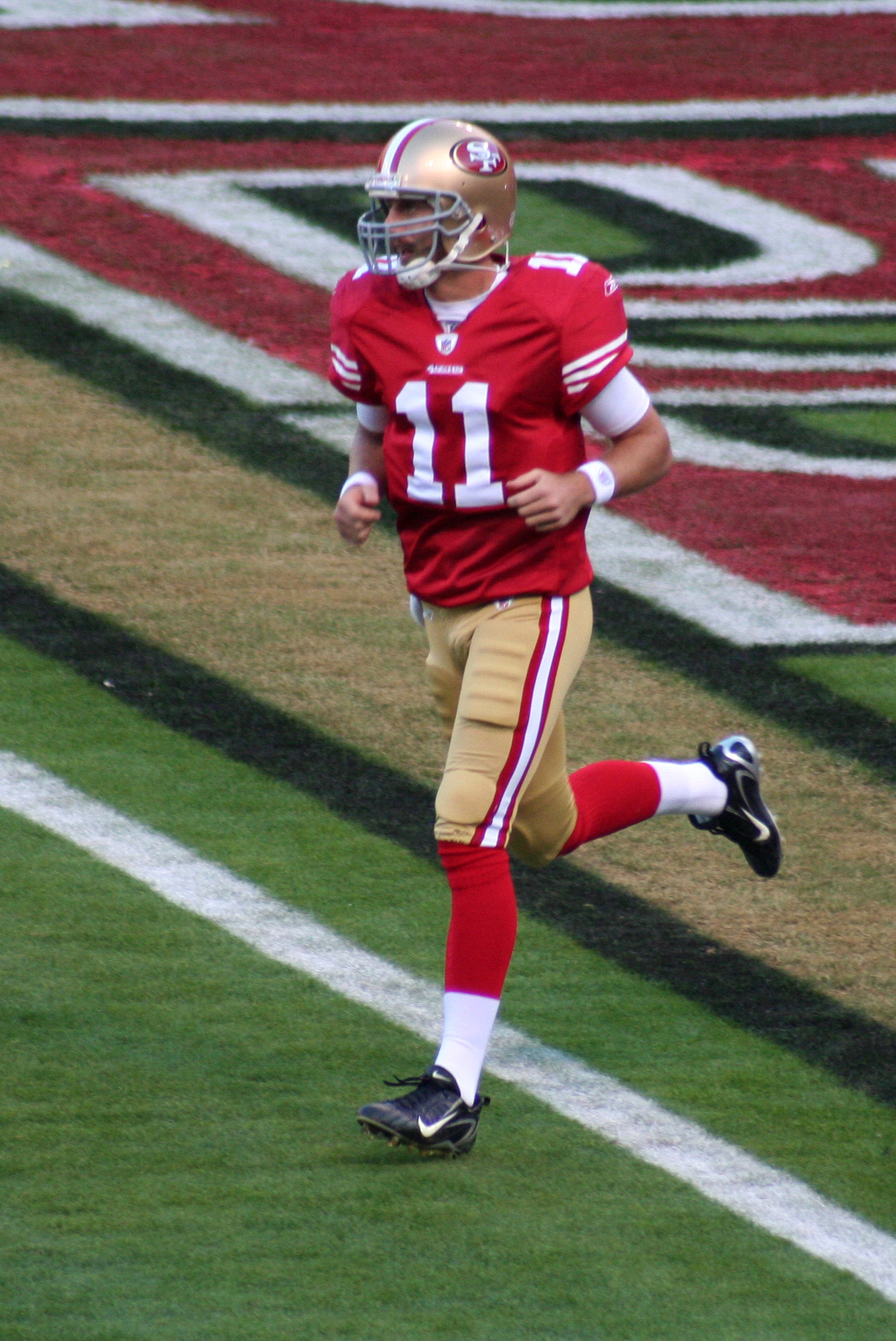 Alex Smith running onto the field before a 2009 game against the Chicago Bears